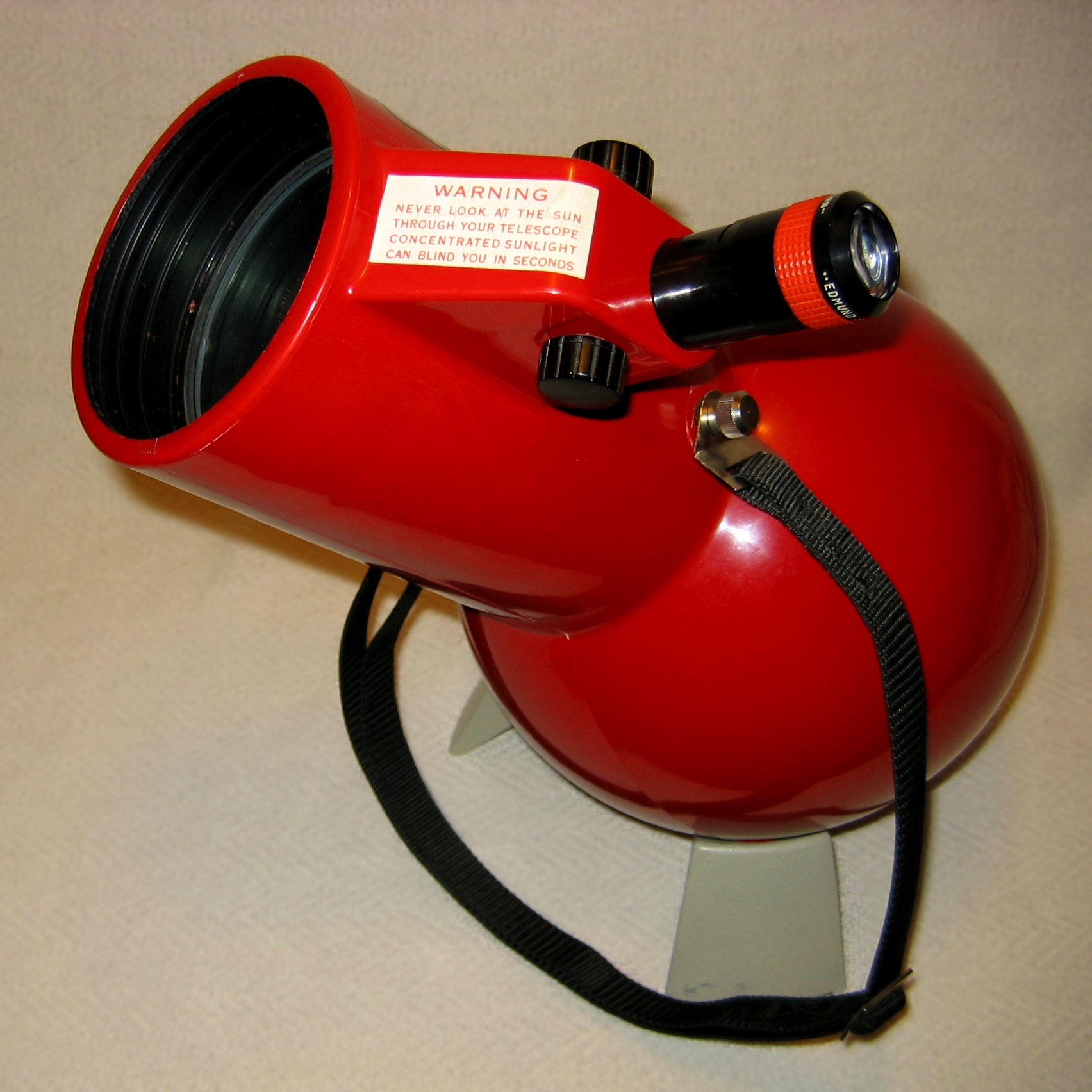 Astroscan telescope made by Edmund scientific. The Astroscan is designed to be easy to use and is targeted at the novice amateur astronomer.